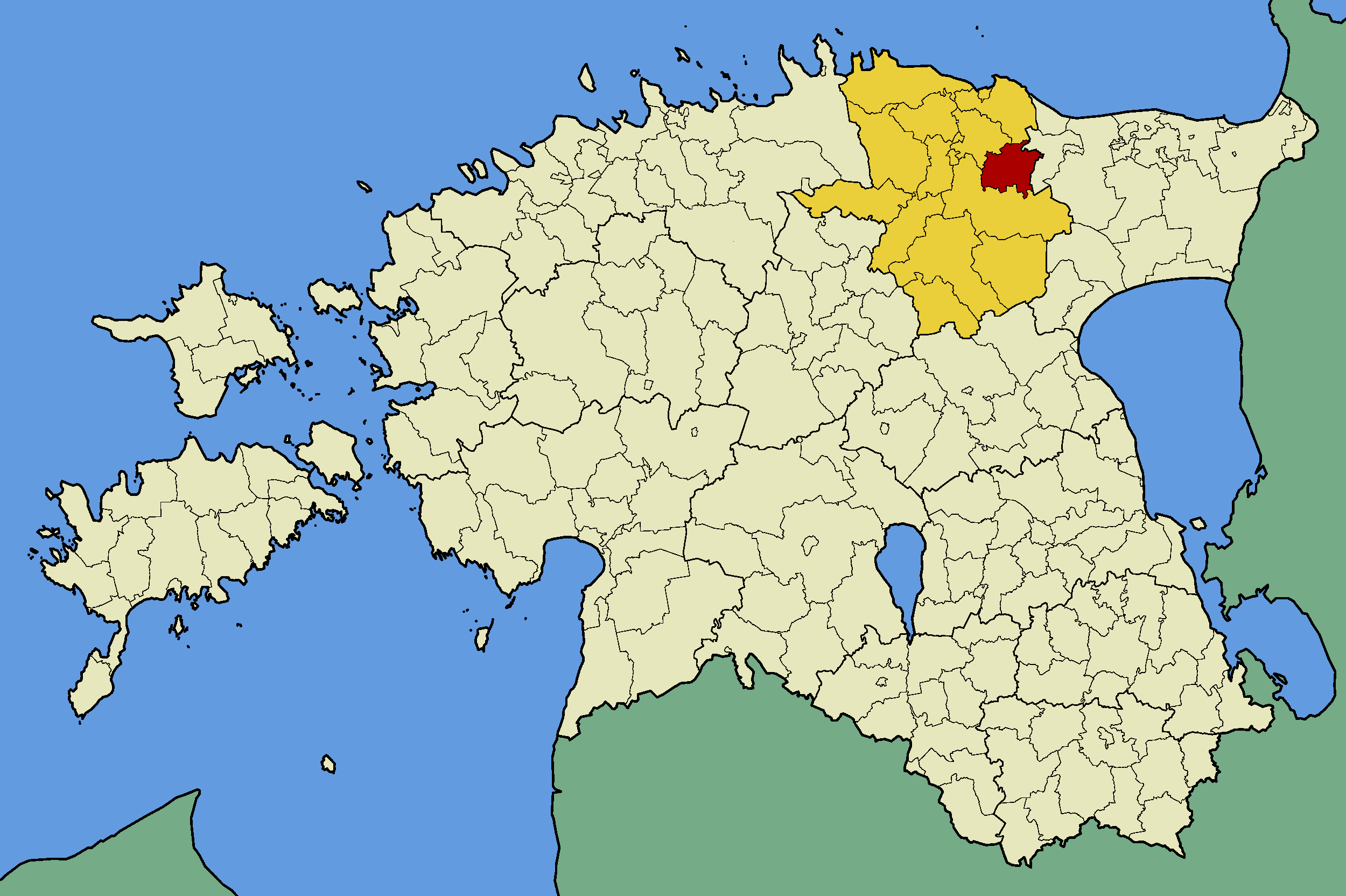 Map of Estonia with borders of municipalities (parishes). Lääne-Viru county and Rägavere municipality emphasized.